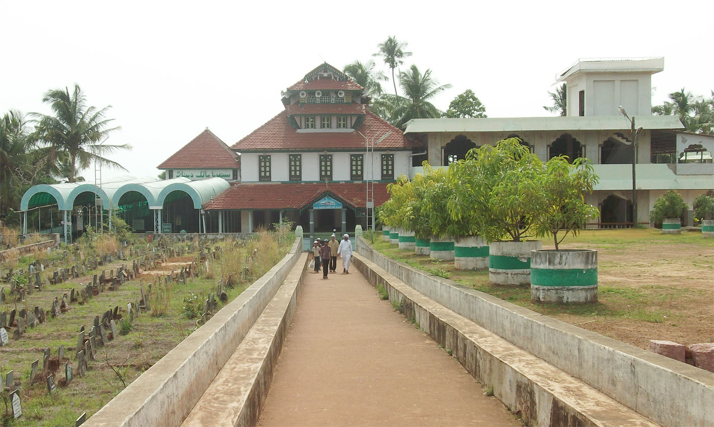 Malik bin Deenar Mosque - Talangara-Kasargode